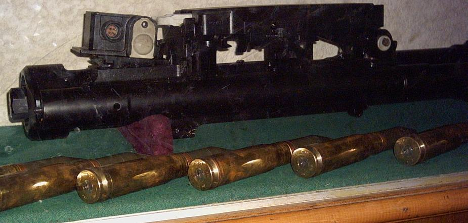 Close up at the Nudelman-Rikhter NR-30 cannon and its ammunition, shown here at the military museum of Egypt.